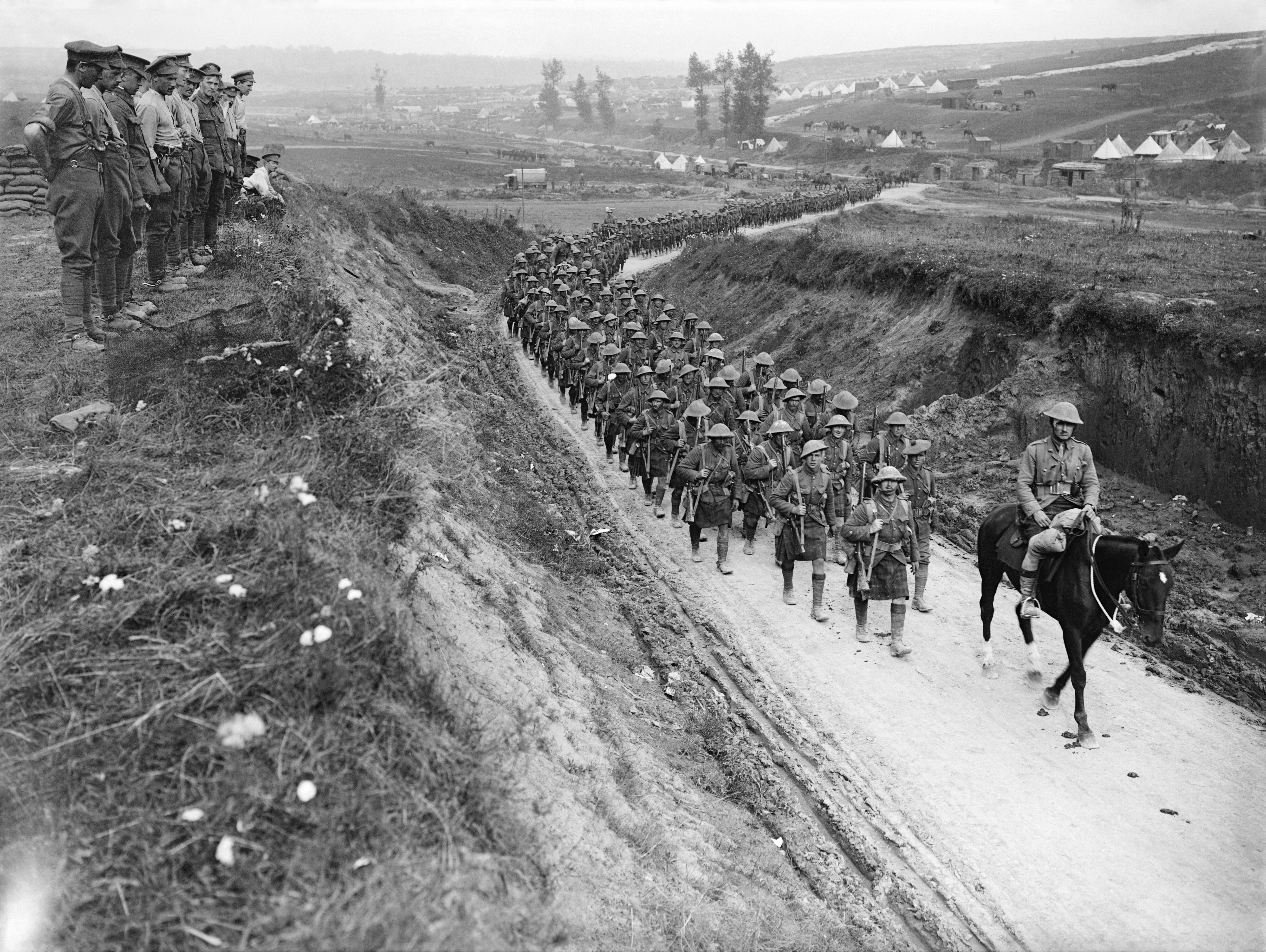 The Battle of the Somme, July-november 1916 Battle of the Ancre Heights. Column of the 2nd Battalion, Gordon Highlanders marching to the trenches along the Becordel-Fricourt road, October 1916.